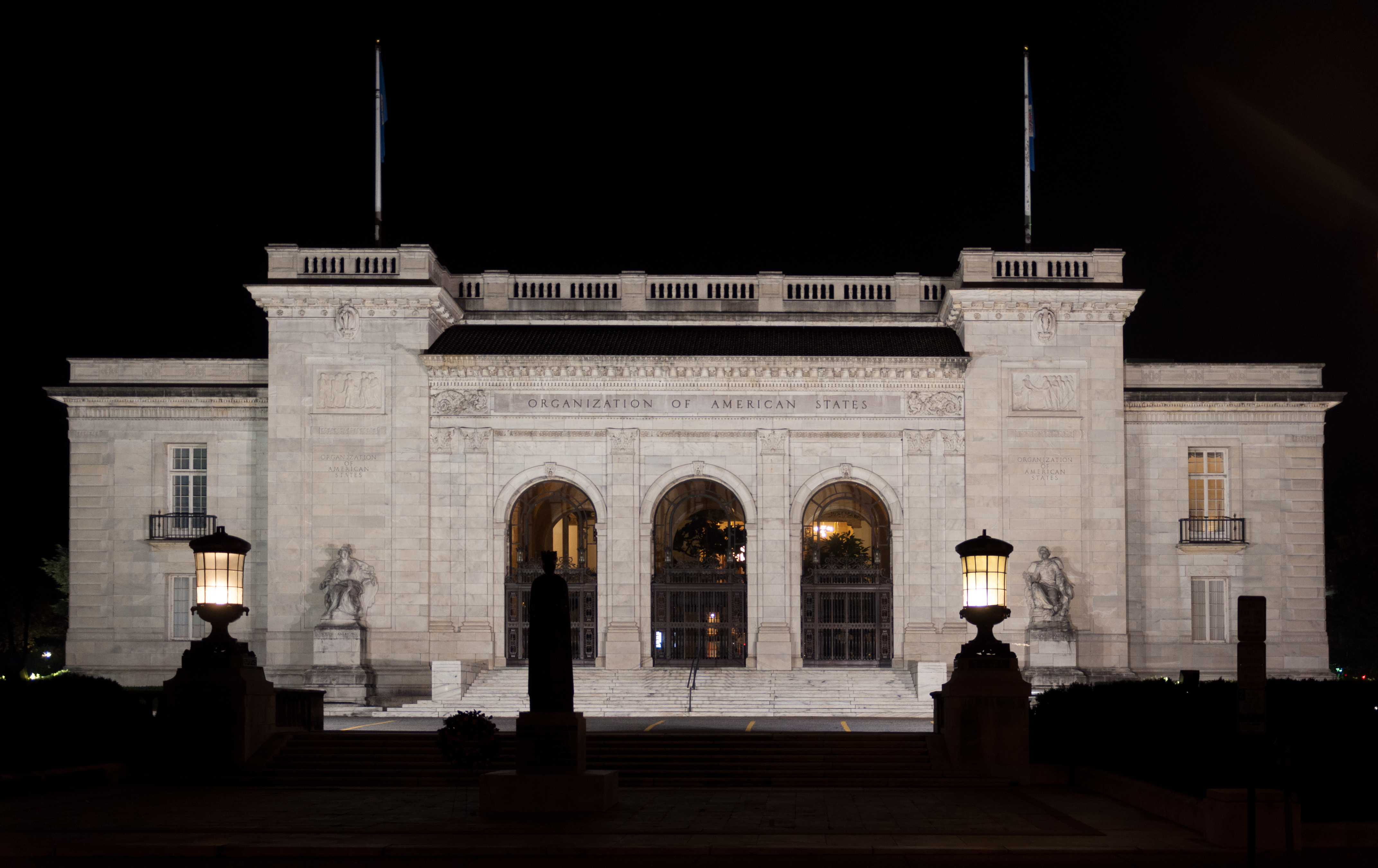 Organization of American States Building, Washington, D.C.